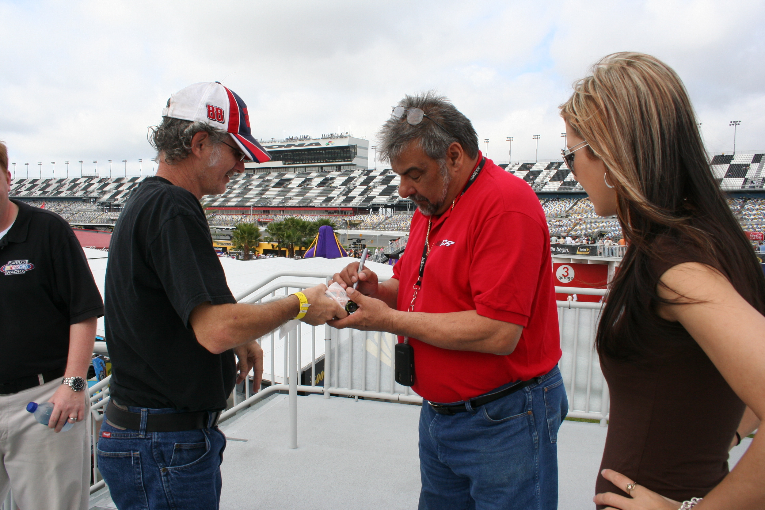 Danny "Chocolate" Myers signs autographs during Daytona Speedweeks. His daughter Alexi looks on.